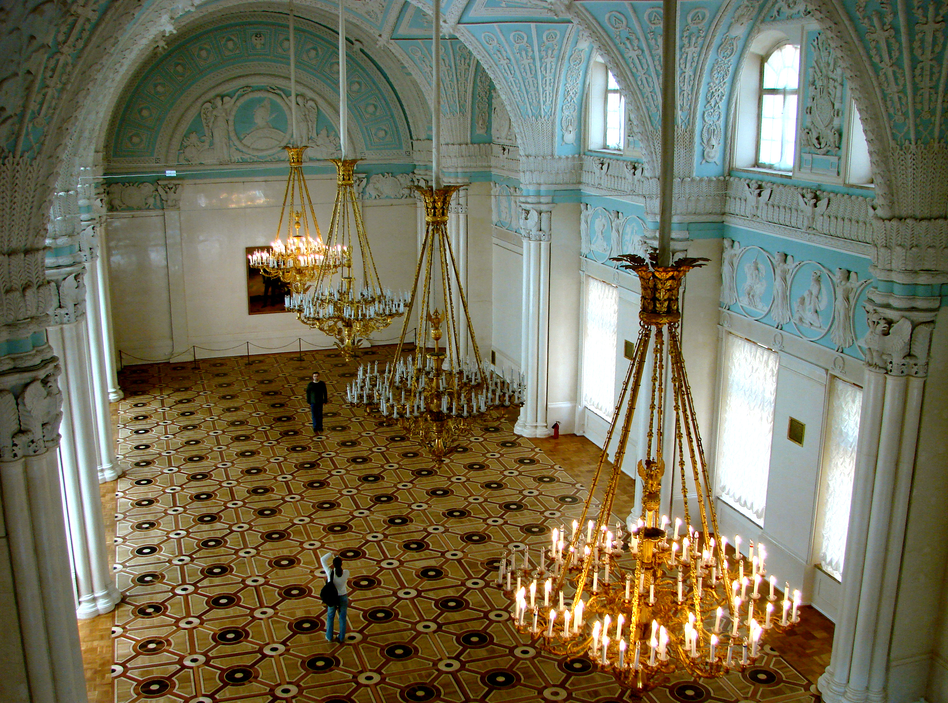 Inside the Hermitage Museum, St. Petersburg, Russia. May 2008.